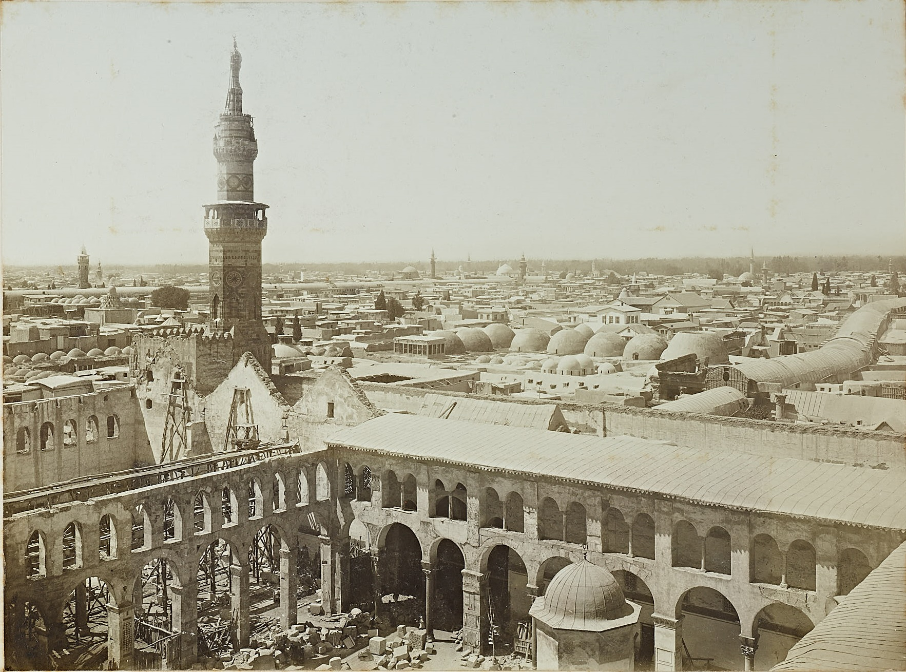 The Umayyad Mosque fire in 1983